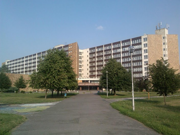 University of Economics in Bratislava